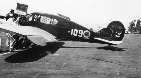 Catalog #: 00059448 Manufacturer: Alexander Designation: C-4 Official Nickname: Bullet Notes: Repository: San Diego Air and Space Museum Archive